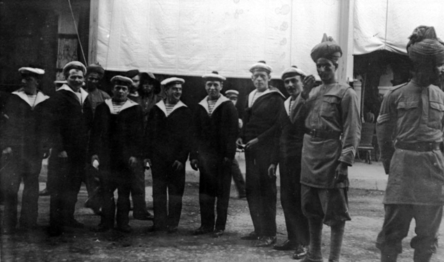 Unidentified French sailors and Indian troops at Port Said, Egypt. 3-4 December 1914.